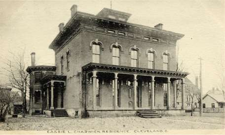 Euclid Avenue Mansion of Cassie Chadwick on Cleveland's Millionaire's Row. Taken from postcard in Stude62's personal collection. Undivided back postcard indicating that it was published before 1906